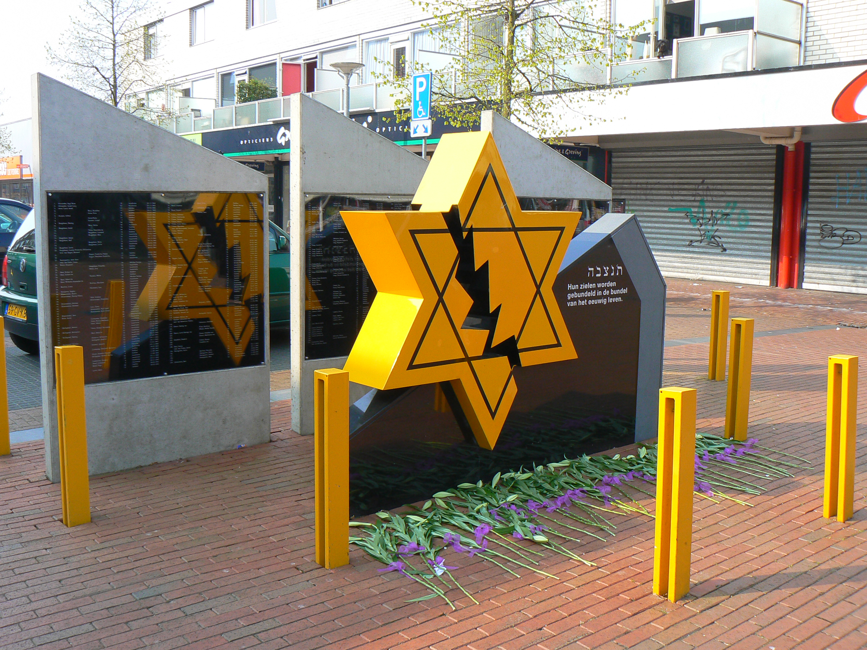 Jewish Memorial in Winschoten/The Netherlands